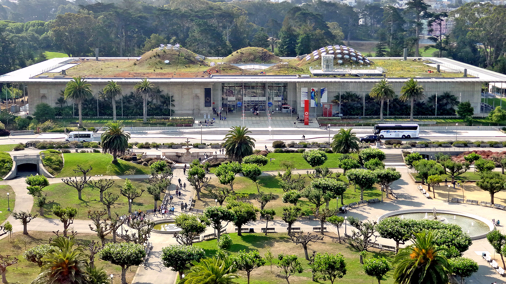 PLEASE, NO invitations or self promotions, THEY WILL BE DELETED. My photos are FREE to use, just give me credit and it would be nice if you let me know, thanks. View from the top floor of the de Young Museum. The California Academy of Sciences is a natural history museum, it is among the largest museums of natural history in the world. The Academy began in 1853 and still carries out a large amount of original research.